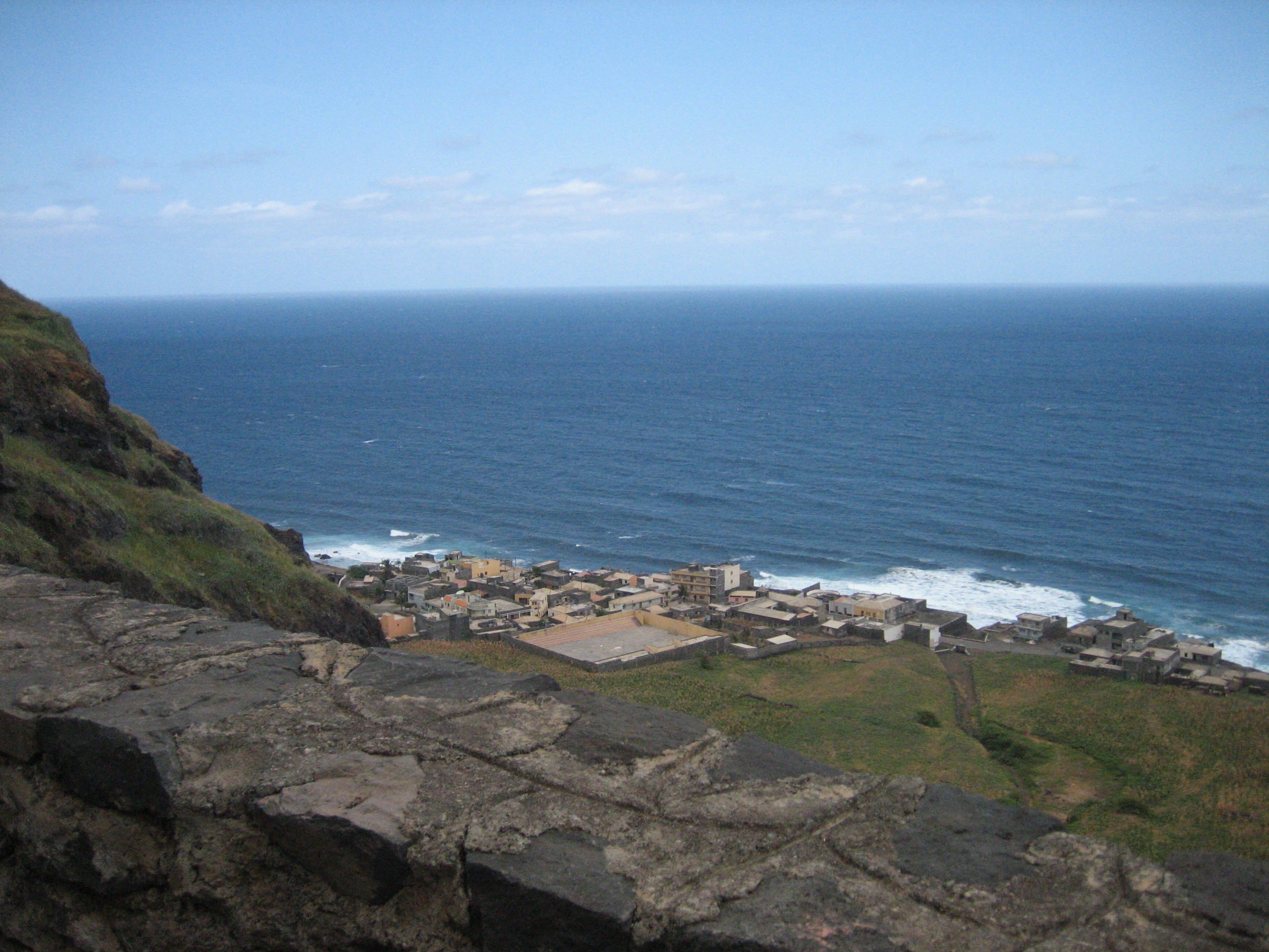 The village Fajãzinha at the northern coast of Fogo, Cape Verde